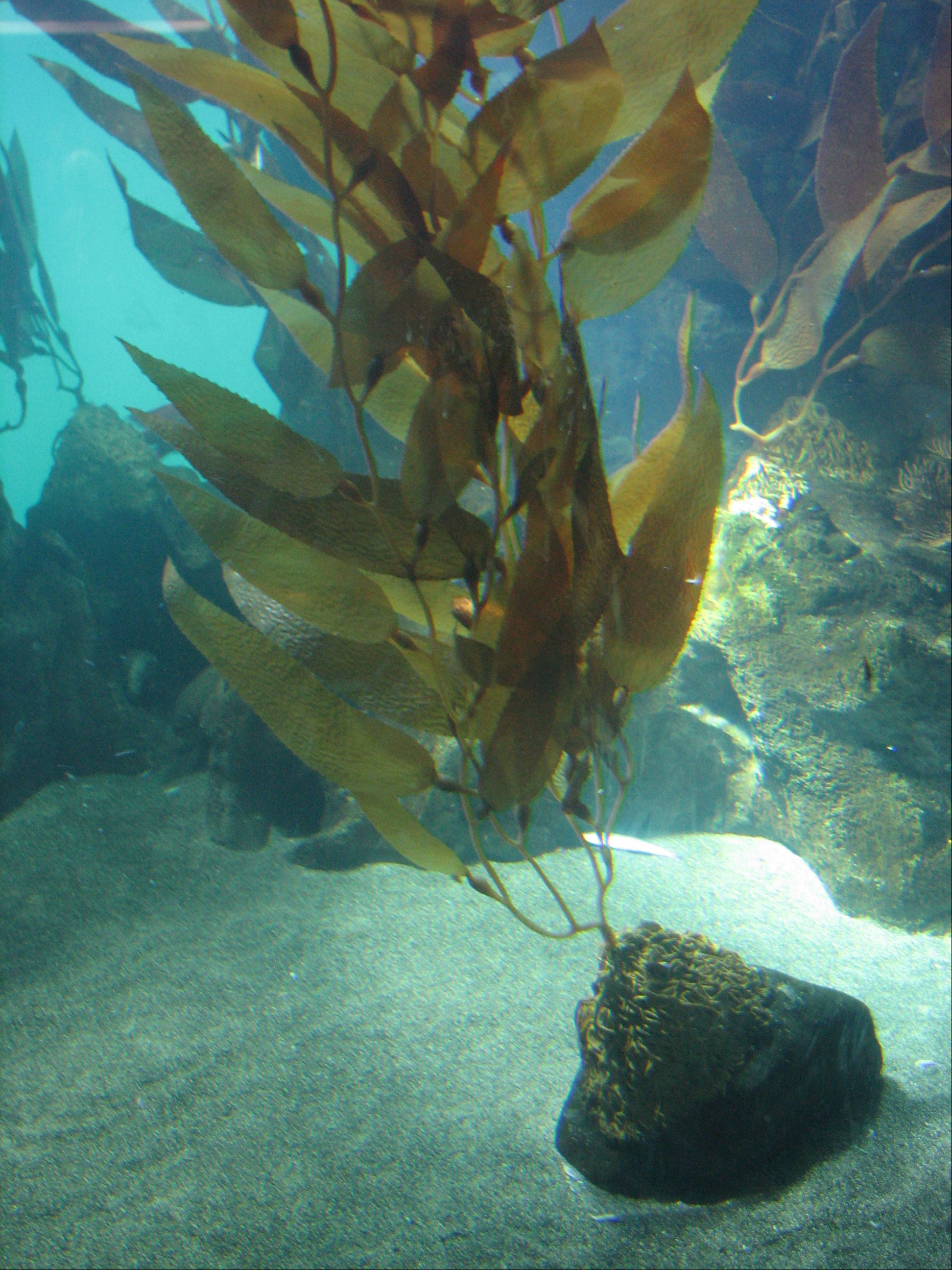 Giant kelp (Macrocystis pyrifera) in the Steinhart Aquarium at the California Academy of Sciences, San Francisco, California